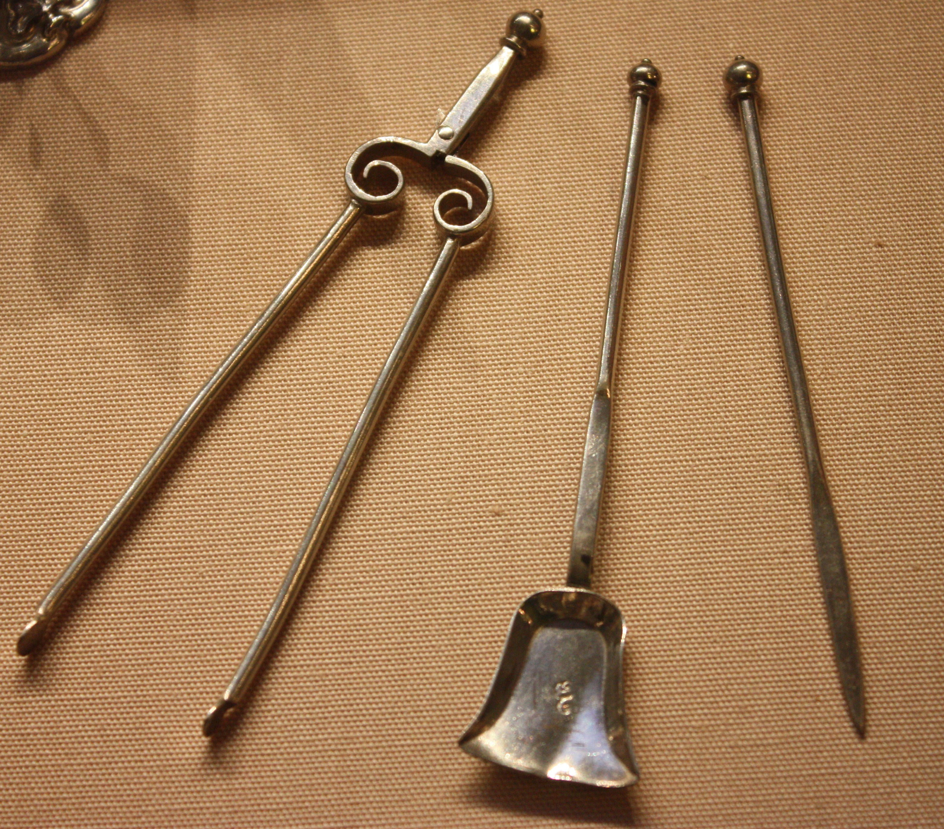 Miniature shovel, poker and tongs About 1725 No hallmarks (London) Mark of David Clayton struck on shovel and poker No marks on tongs This miniature poker is a toy. The term toy included any knick-knack or fashionable trinket for adults, as well as a child�s plaything. Silver toys like this one copied the exact details and proportions of normal sized pieces and came in a variety of subjects and sizes, ranging from domestic utensils to elaborate furniture. There are several explanations for them. They might have been intended to furnish dolls� houses. They might have been miniature trade samples. They might have been practice pieces for apprentices. They might have been fashionable novelties for adults to collect or they might simply have been playthings for rich children. In 1571, the daughter of Henry II of France ordered a set of small silver �pots, bowls, plates and other articles� to give to a royal child. The high point of production in London was the period 1700-1750. Because they were light and small, silver toys are not fully hallmarked. The form of the maker�s or retailer�s mark helps to date them. Bequeathed by Mrs D.S.F. Campbell Collection ID: M.228-1976 This photo was taken as part of Britain Loves Wikipedia in February 2010 by Valerie McGlinchey.